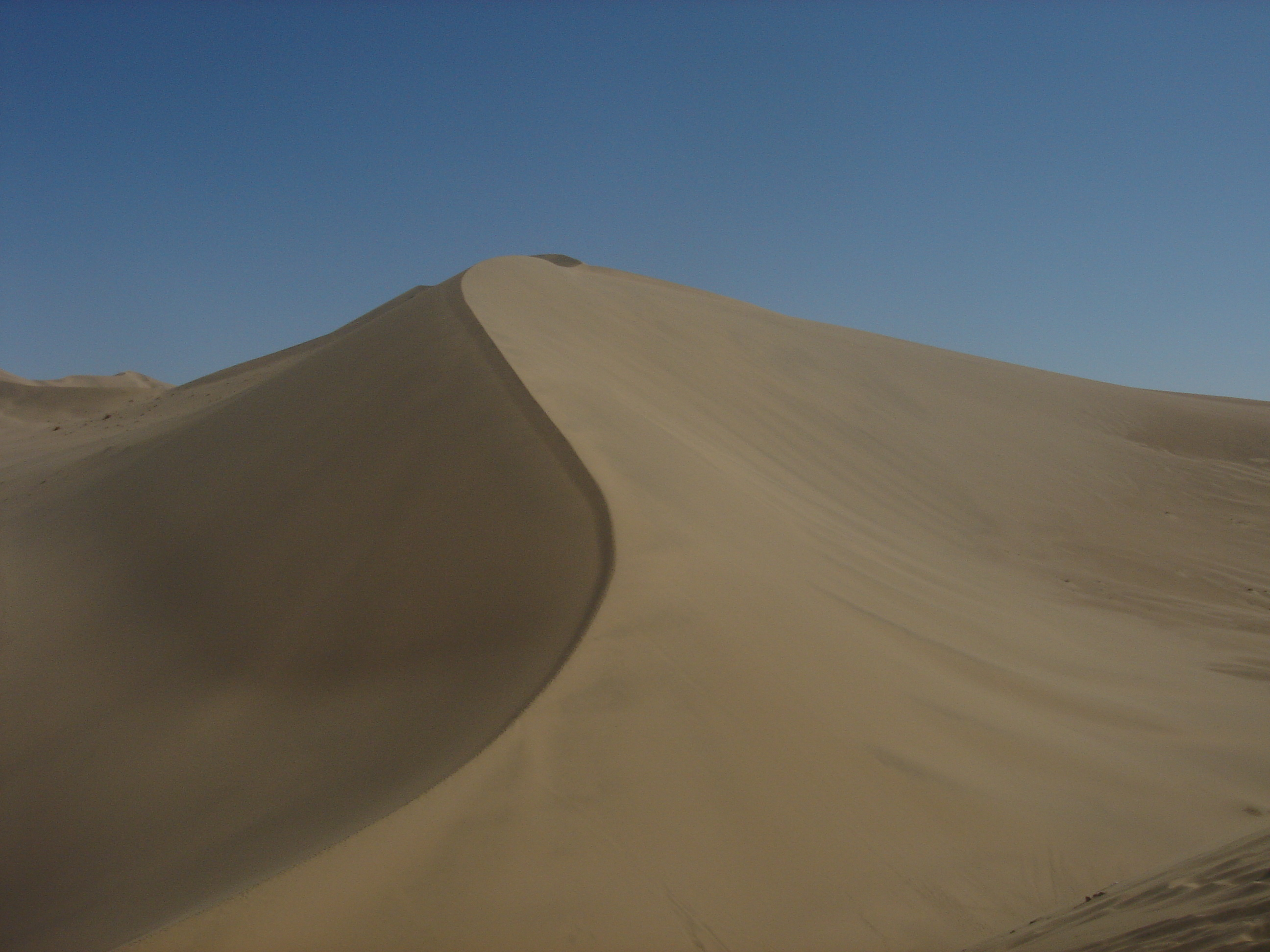 This photo was taken on the Singing Sand Dunes.